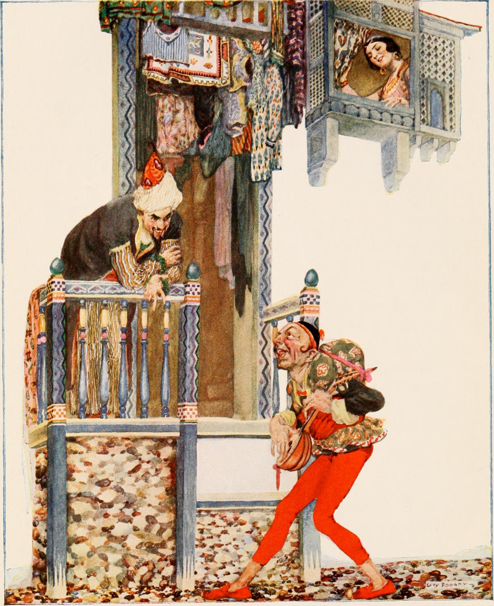 Illustrations from More tales from the Arabian nights (1915)